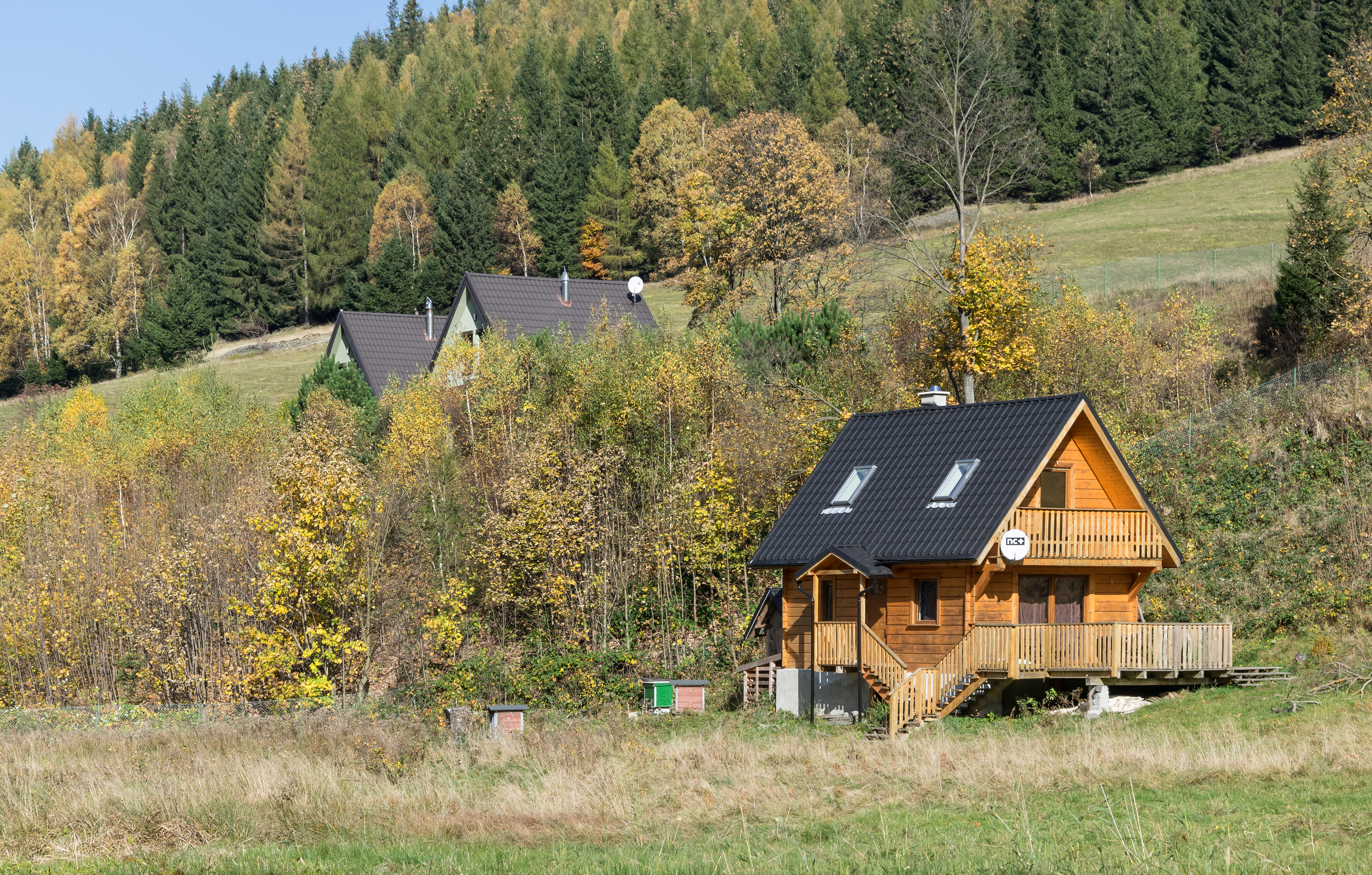 Holiday cottages in Nowa Morawa